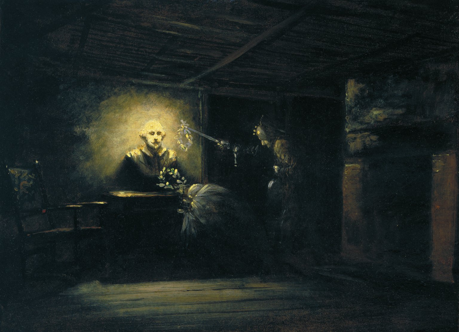 study for an (as yet undiscovered) engraving honoring William Shakespeare